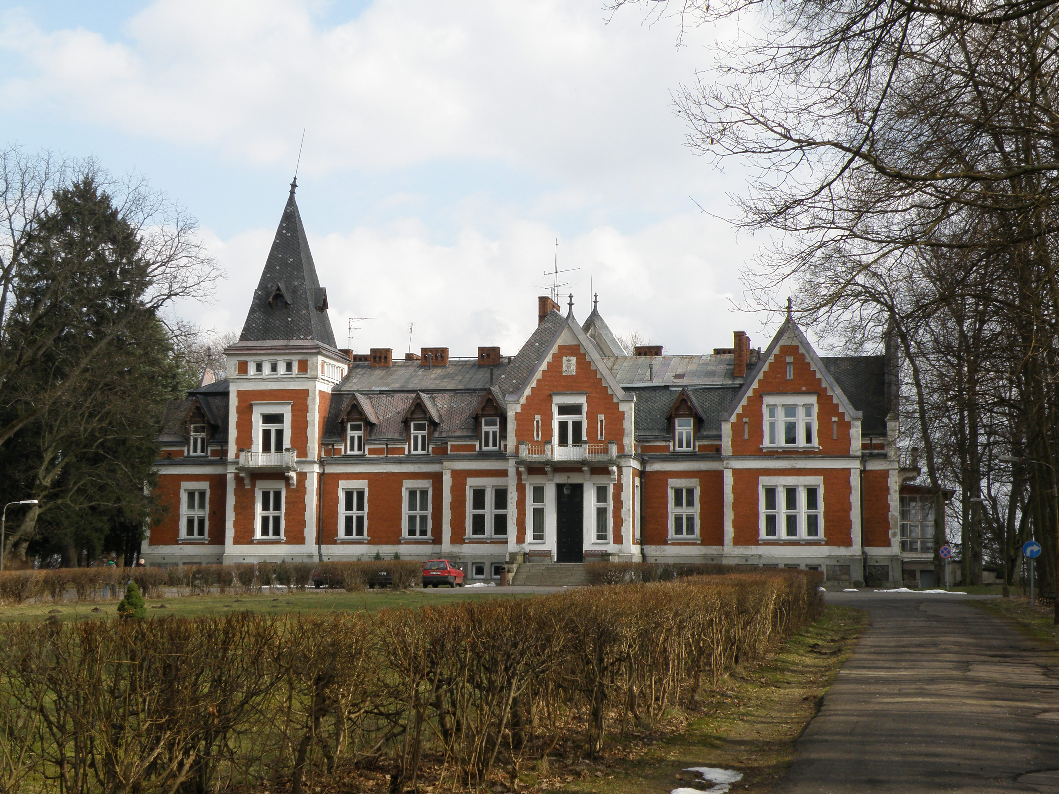 Poland, Radziwills’ Palace in Jadwisin